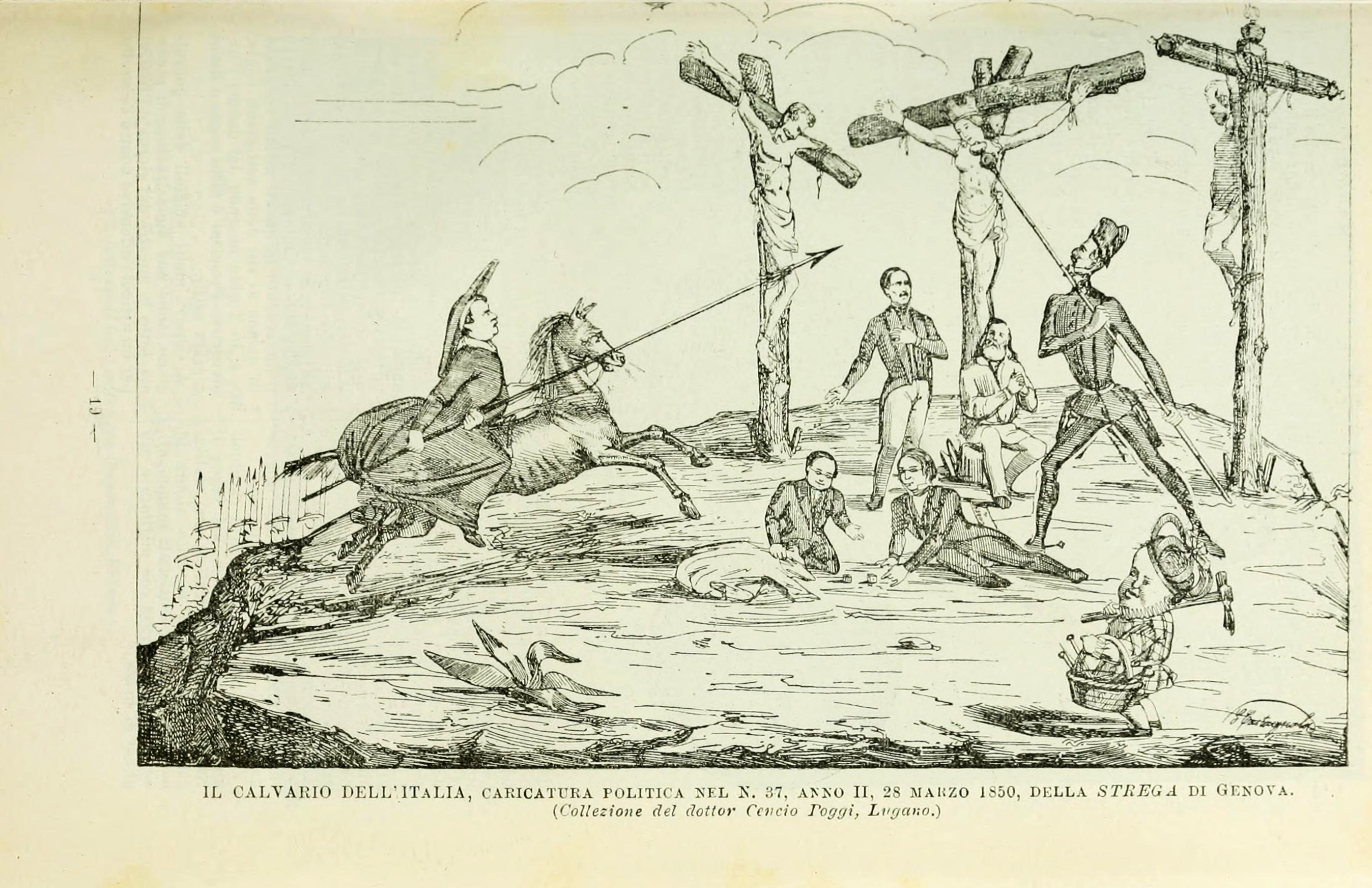 This engraving is a political caricature in the form of a parody of the crucifixion of Jesus of Nazareth, signed G[abriele] Castagnola and printed in the Genoese republican and Mazzinian satirical journal La Strega on Holy Thursday, 1850. The personification of Italy, identified by her mural crown, takes the place of Jesus. The two thieves are played by Carlo Alberto (the previous King of Sardinia, on the viewer’s left) and Ferdinand II of the Two Sicilies. Garibaldi sits at Italy’s feet; Mazzini stands next to him. Longinus is portrayed as Pius IX on horseback, and the soldier offering the sponge soaked in vinegar is La Marmora. Franz Joseph, Emperor of Austria, carries a hammer and a basket of nails. Cavour and Rattazzi play at dice for Italia’s clothes.